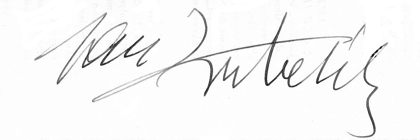 Signature of Jan Kubelík